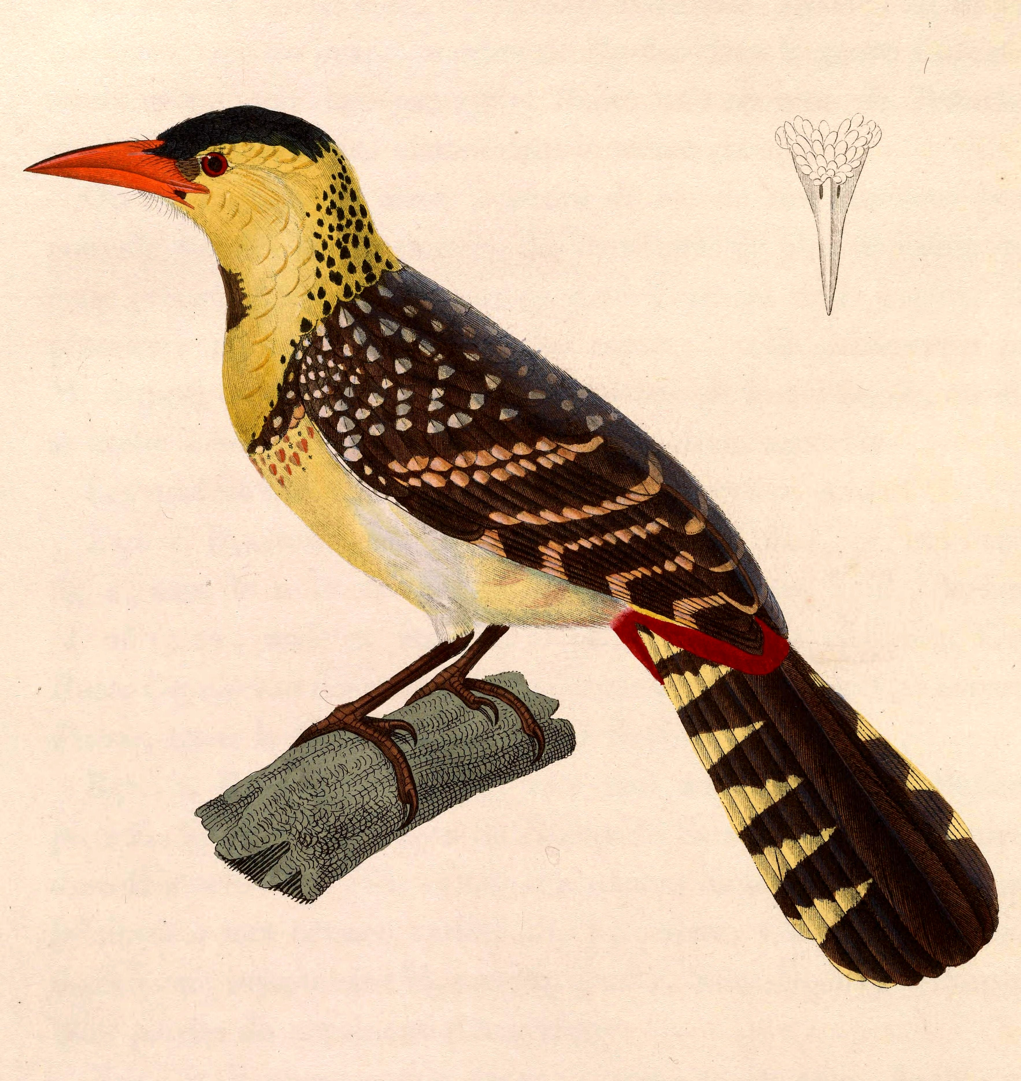 « Mycropogon margaritatus » = Trachyphonus margaritatus (Yellow-breasted Barbet) - adult male